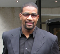 Orlando Magic general manager Otis Smith at the Air Canada Centre in April 2008 before the Magic's playoff game vs. the Toronto Raptors.